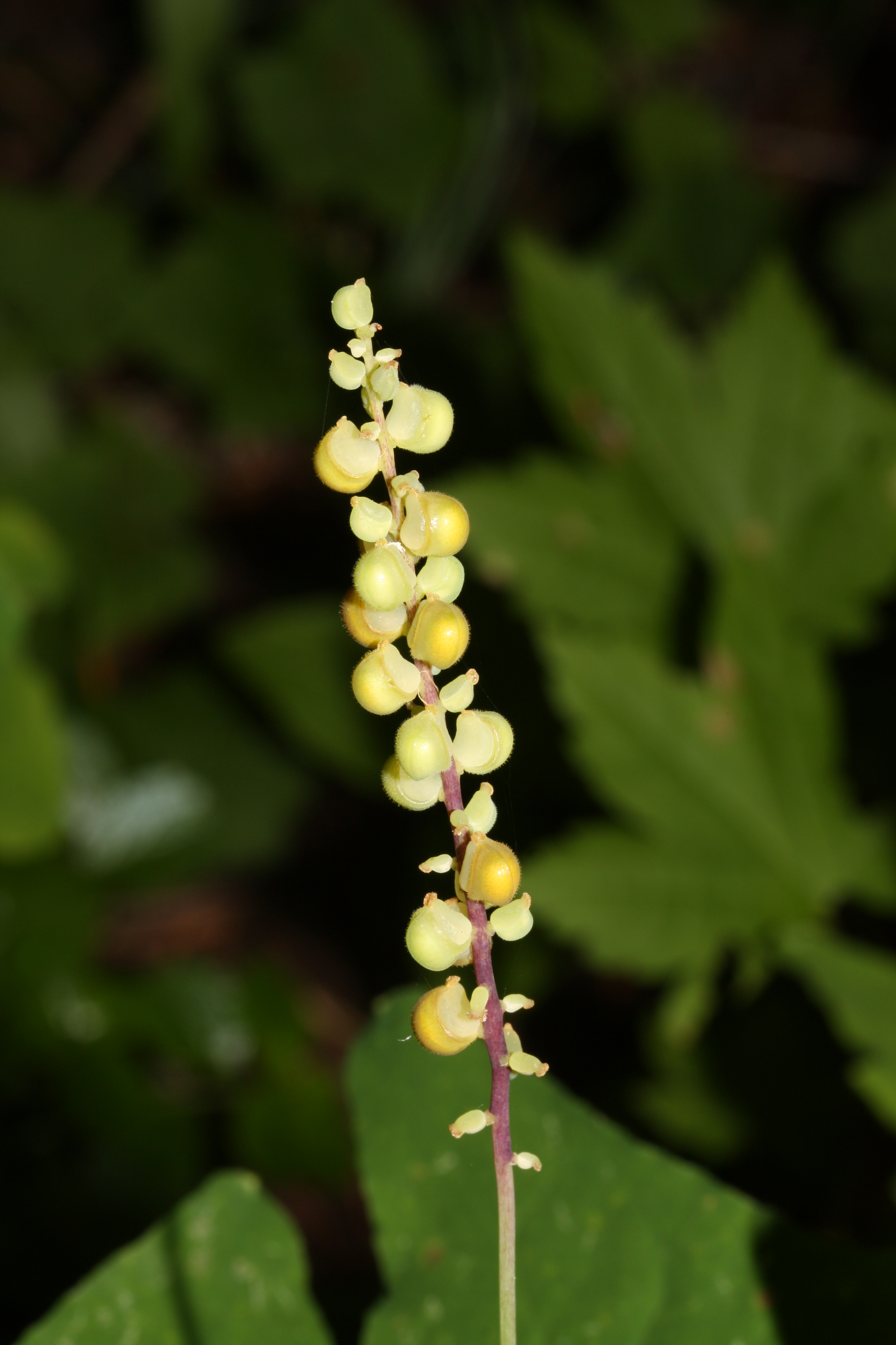 Vanillaleaf, Sweet-after-death, Deer's-foot